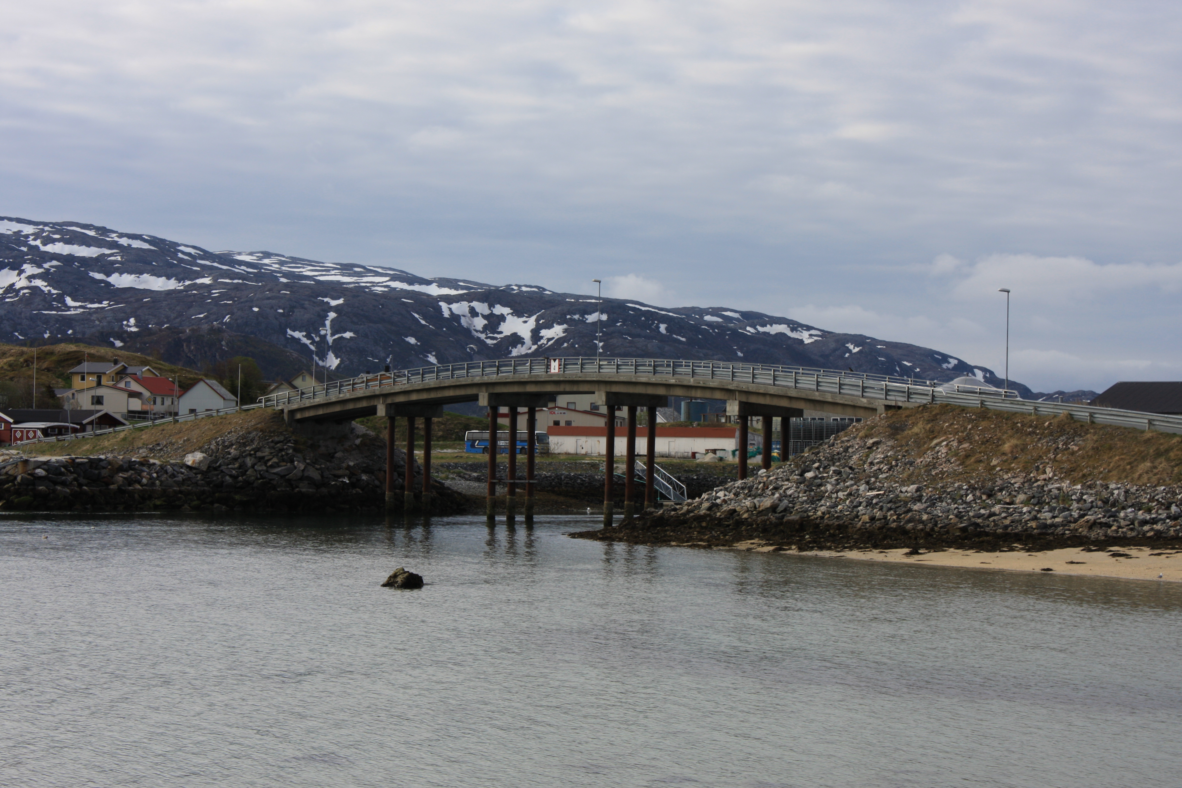 The bridge that connects Sommarøy to Hillesøya in Tromsø kommune, Norway.